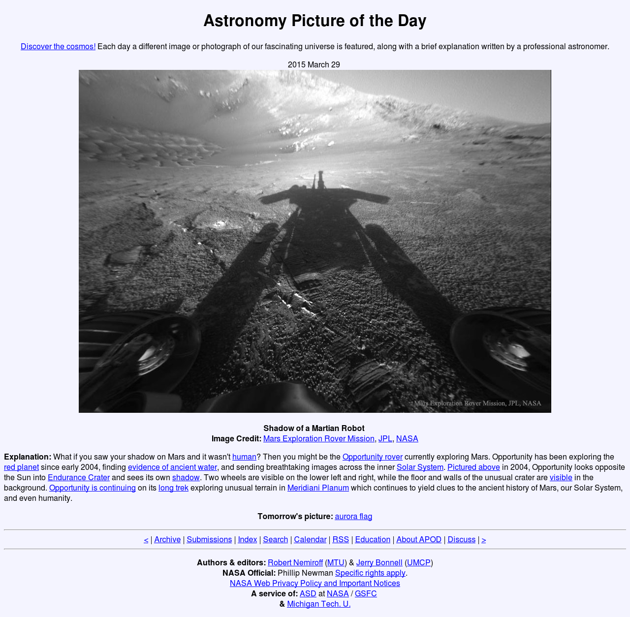 An image of the Astronomy Picture of the Day featuring an image of the Opportunity rover. Image created by NASA; site a product of NASA.